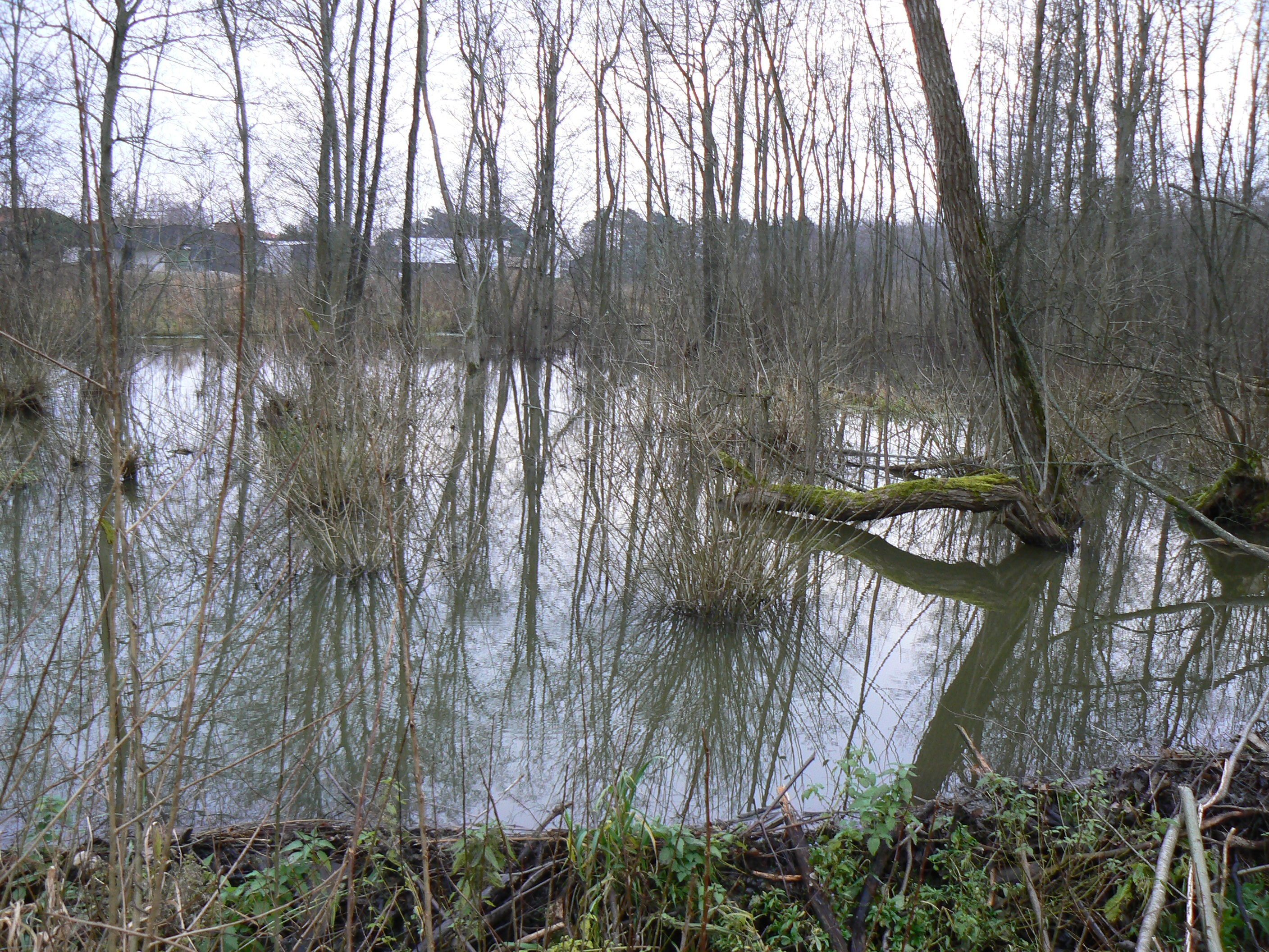 Beaver dam on Ringelis (Žaliasis slėnis)